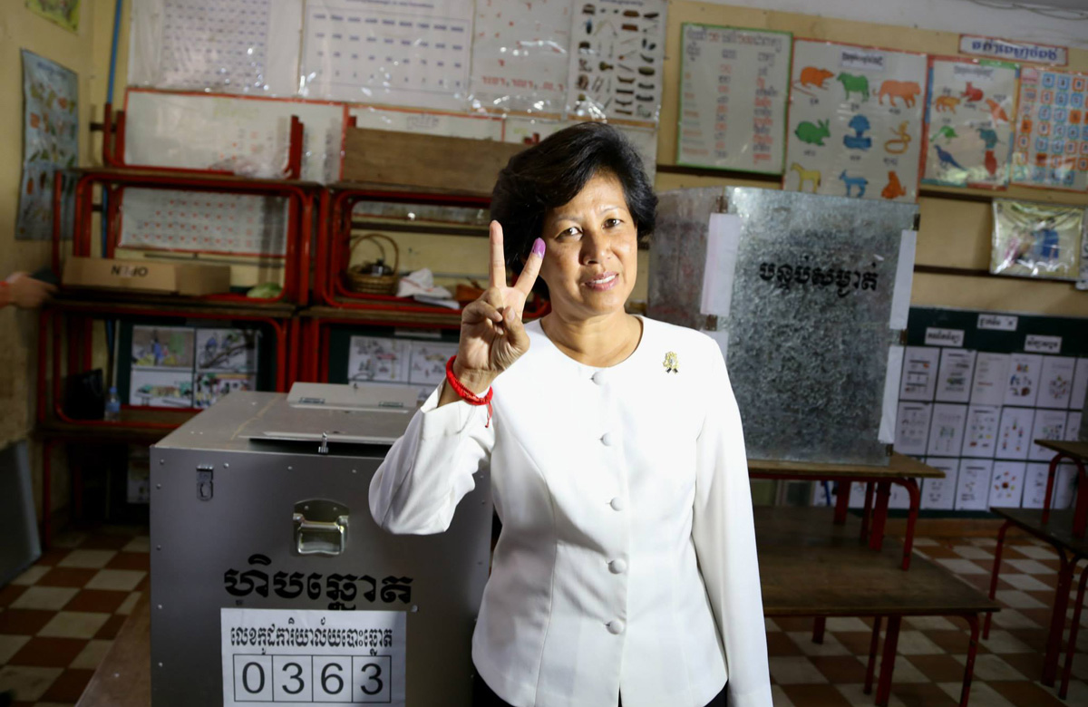 Princess Norodom Arunrasmy, president of the royalist FUNCIPEC Party, casts her vote a polling station at the Teaksin primary school in Kampong Cham town, northeast of Cambodia's capital Phnom Penh. (Heng Reaksmey/VOA Khmer)